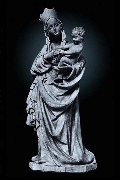 Photograph